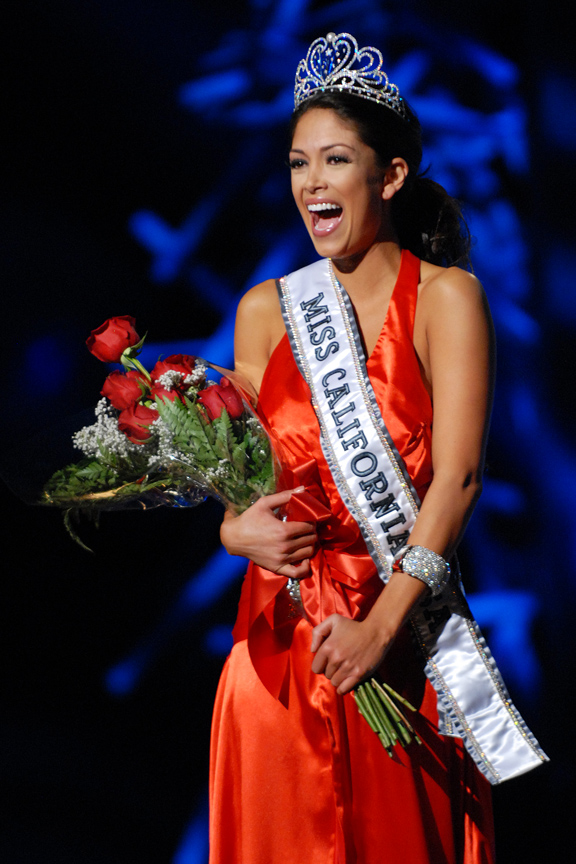 The newly crowned Miss California USA 2010, Nicole Johnson on-stage at the The Agua Caliente Casino in Rancho Mirage, CA on Nov. 22, 2009 - Photo by Glenn Francis of